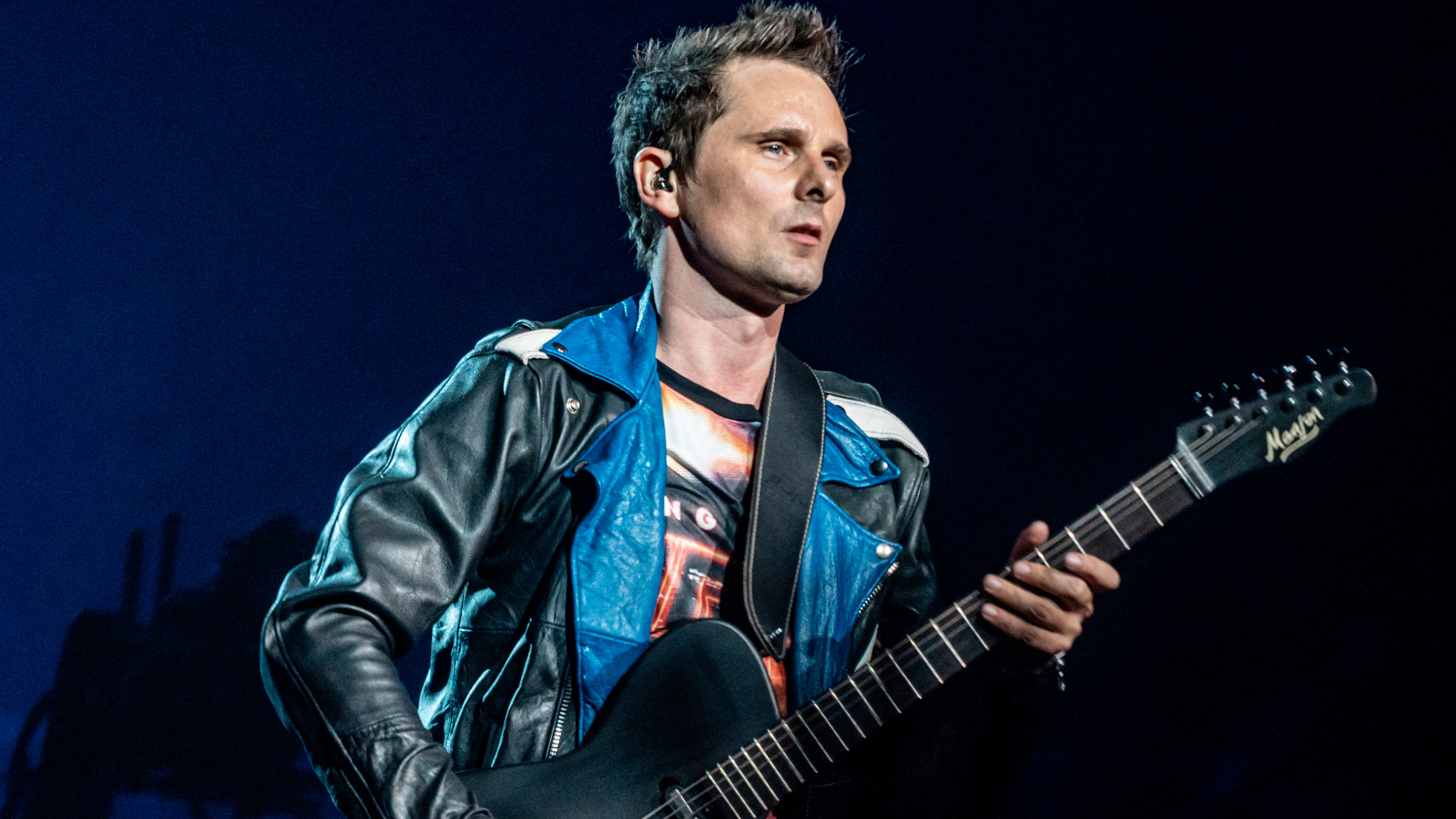 Muse playing at The O2, London. Simulation Theory Tour.